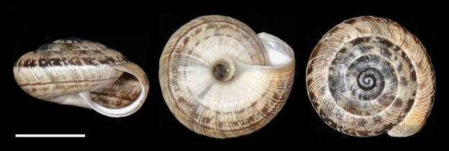 Composition of the 3 main views of the shell of Xeroplexa interesecta. Botanic gardens, Cambridge (England).